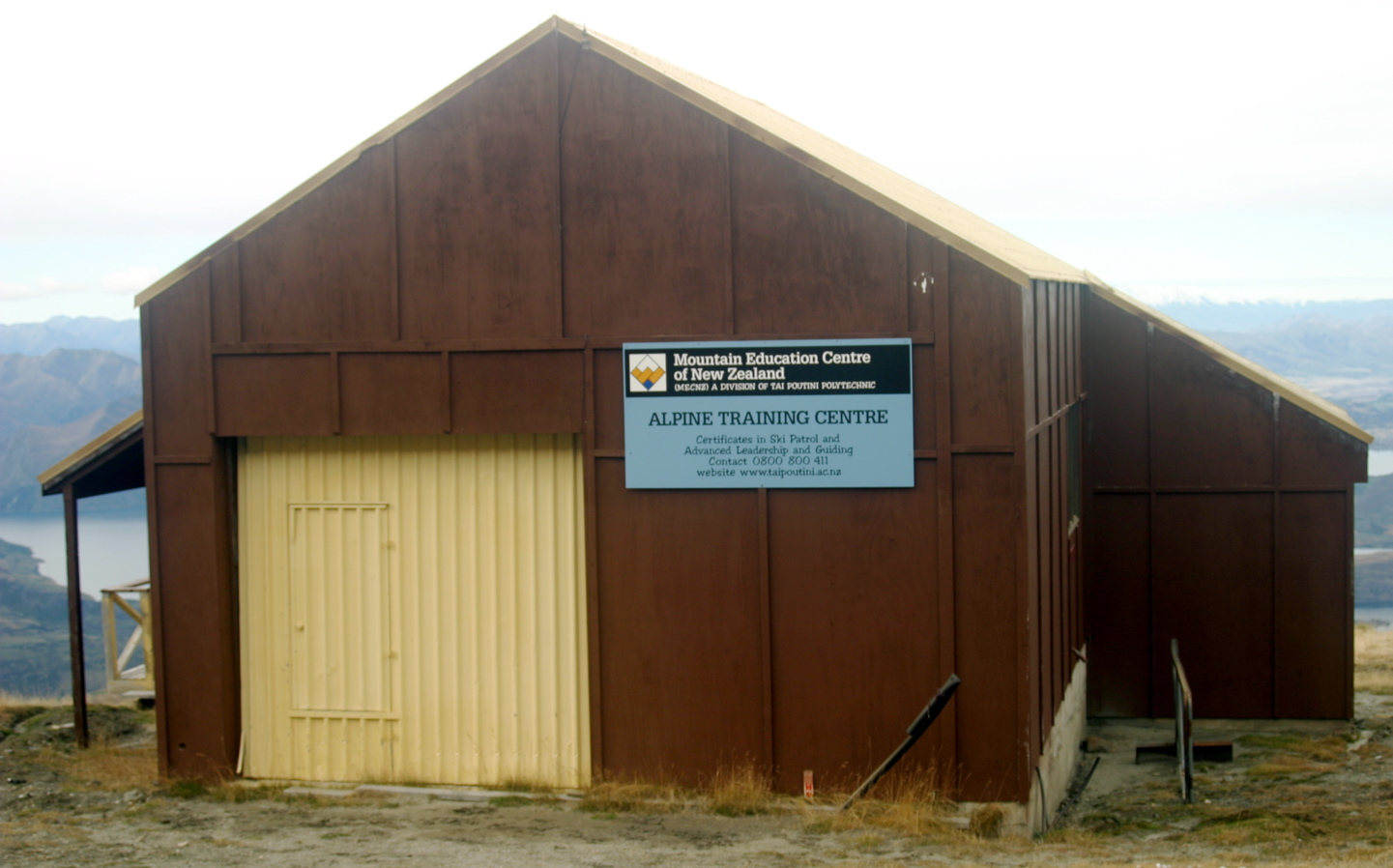 Taken by Sam Heathfield (me), on 060510 at Treble Cone ski area, New Zealand